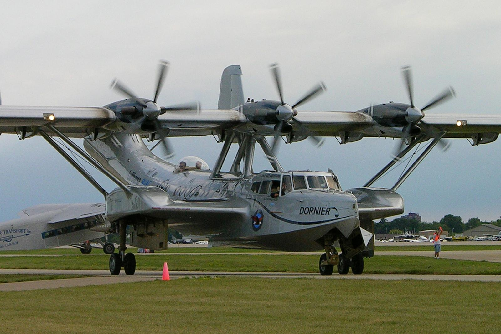 Dornier 24-ATT flying boat, at the 2005 Oshkosh Air Show.